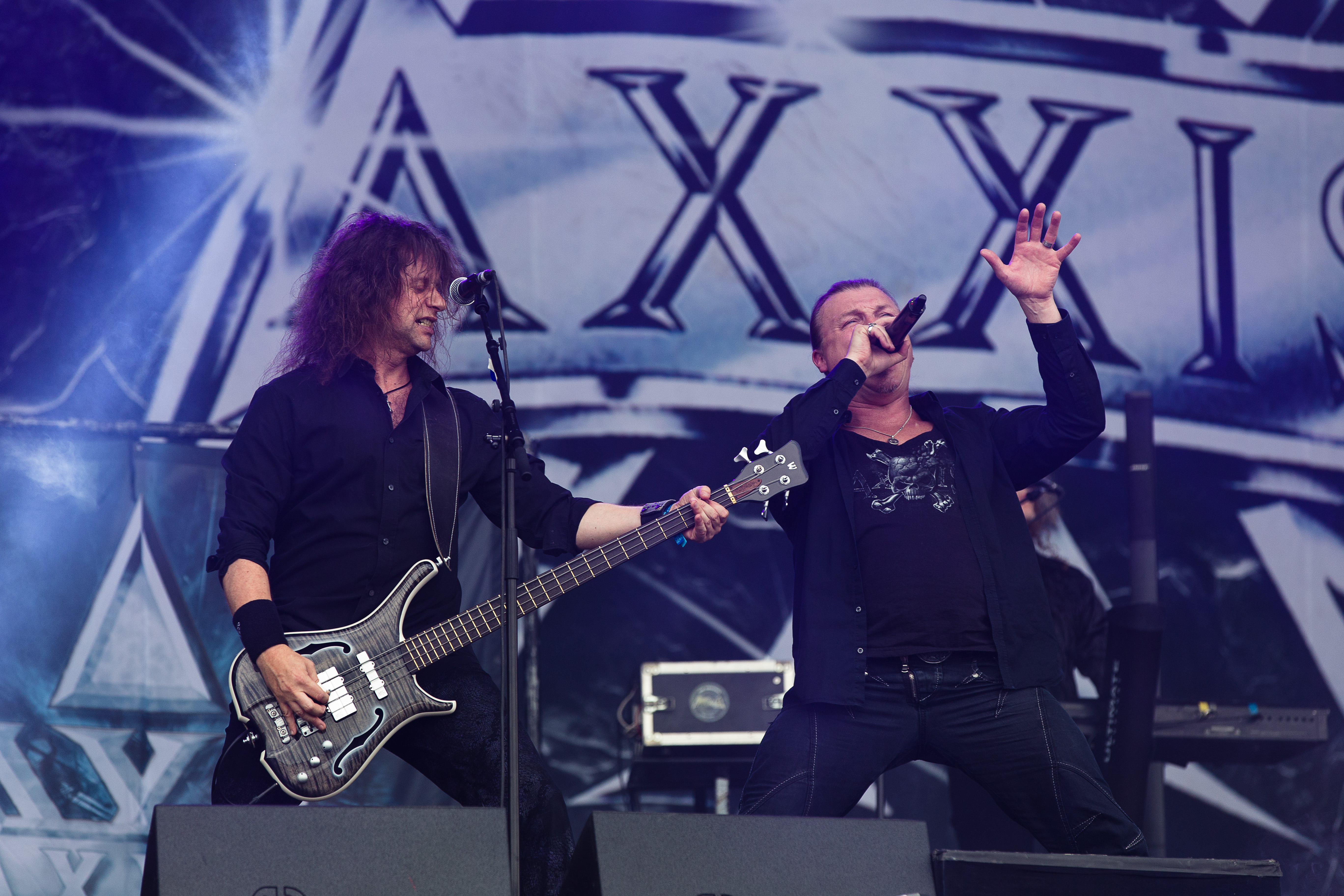 The German hard rock band Axxis at the Rockharz Open Air 2016 in Ballenstedt/Germany.